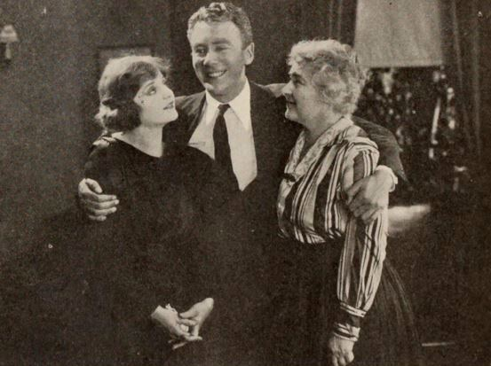 Still from the American comedy drama film Thirty a Week (1918) with Tom Moore, Tallulah Bankhead, and an unidentified actress(it's Grace Henderson), on page 29 of the November 30, 1918 Exhibitors Herald.